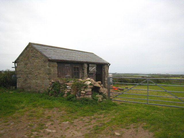 Stables on Knave Go By Hill